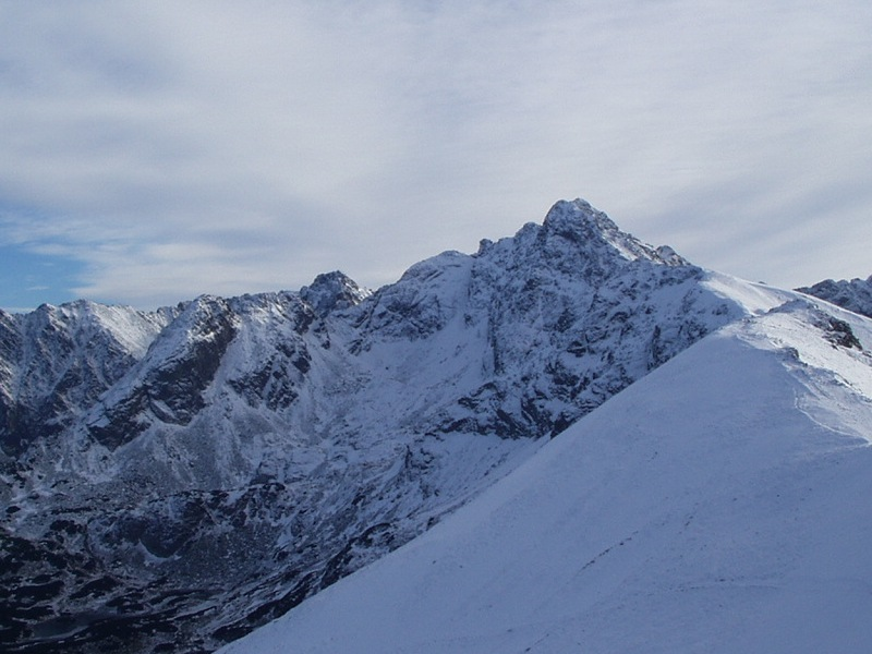 Świnica - peak in the Tatra mountains, view from the western side.